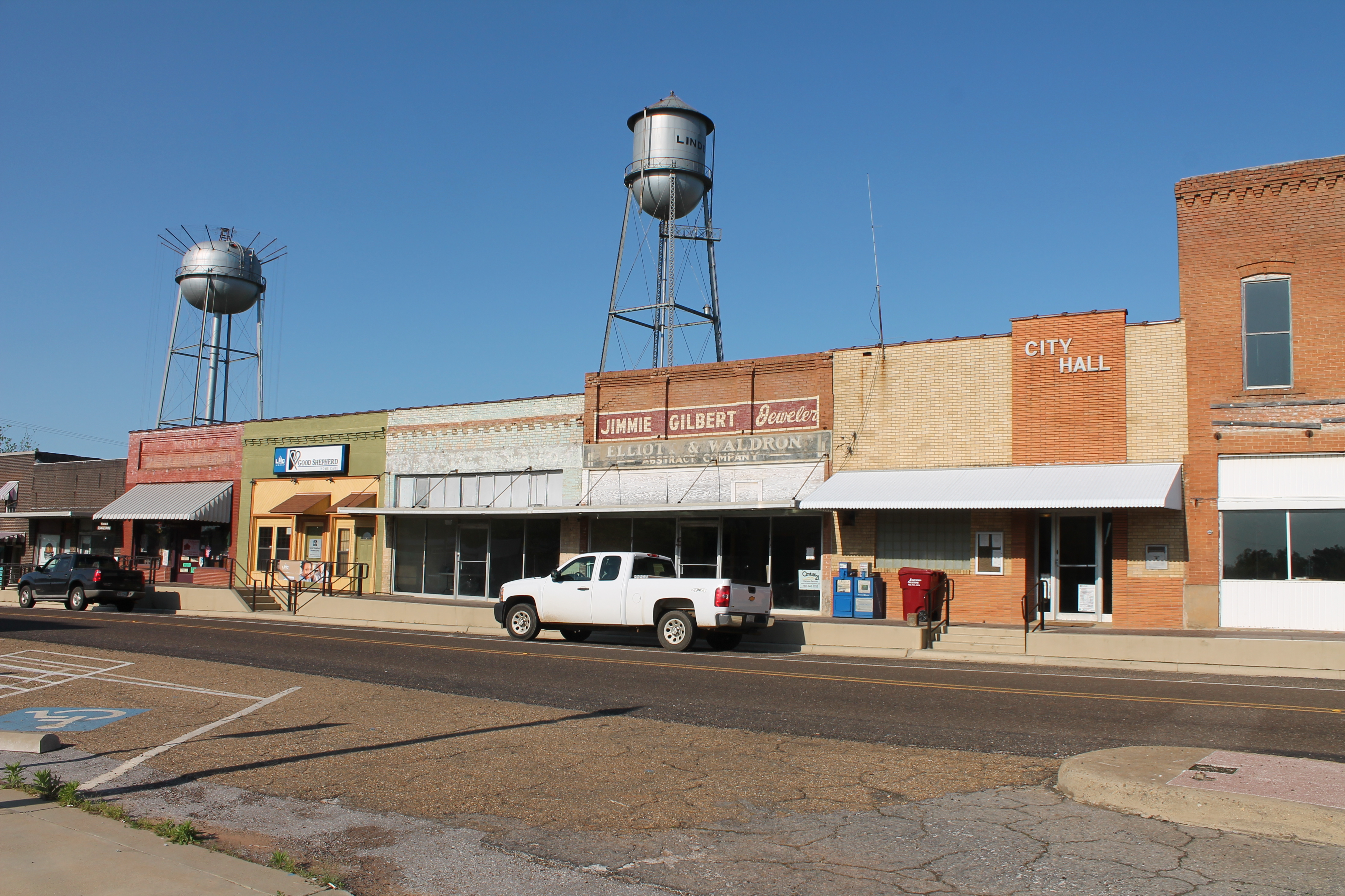 The town of Linden, Texas